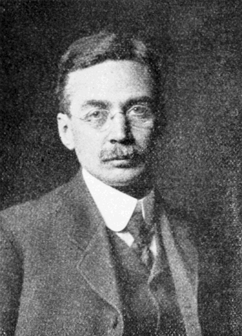 Ludwig Hektoen